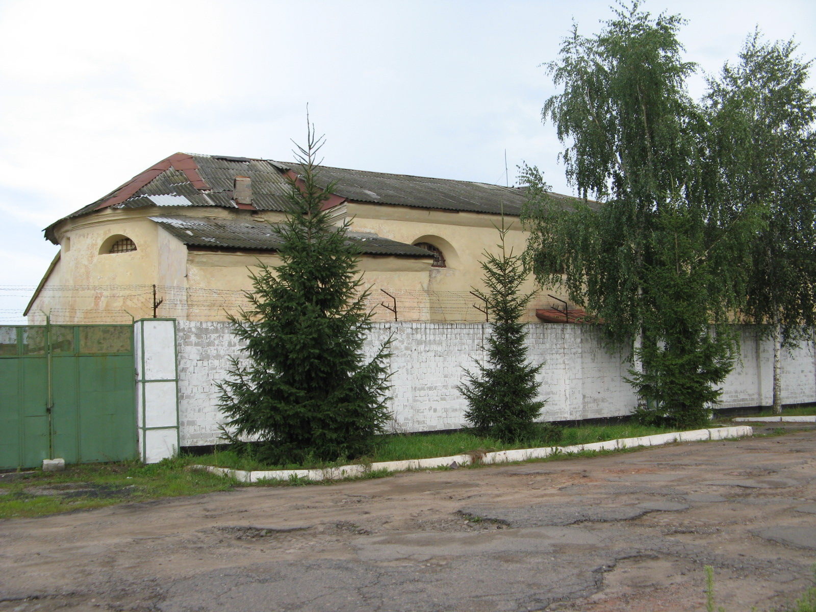 Roman-Catholic church of St. Peter and Paul (Babrujsk, modern condition)